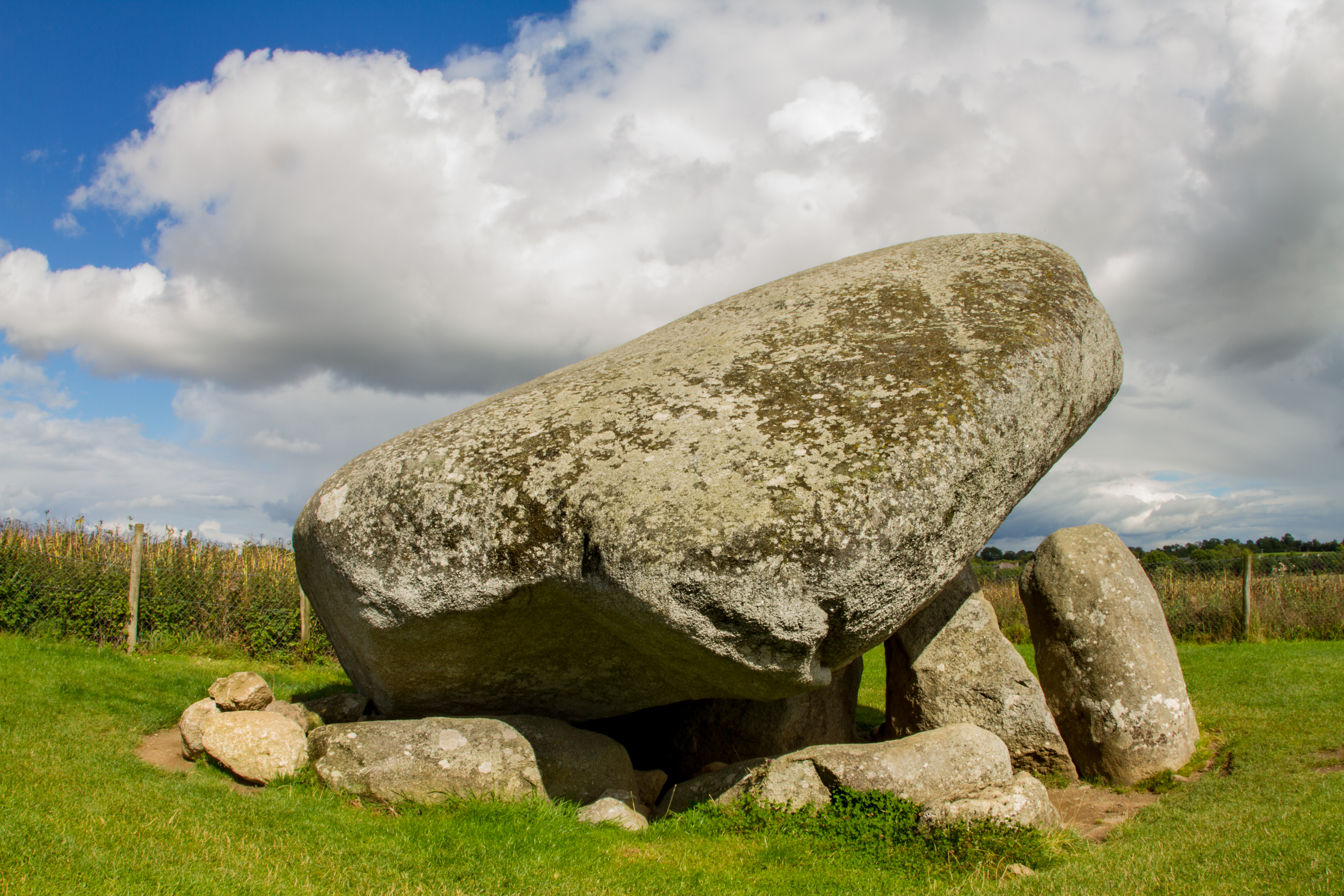 Browneshill Portal Tomb